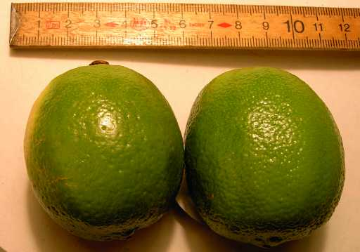 Two limes, and a ruler.